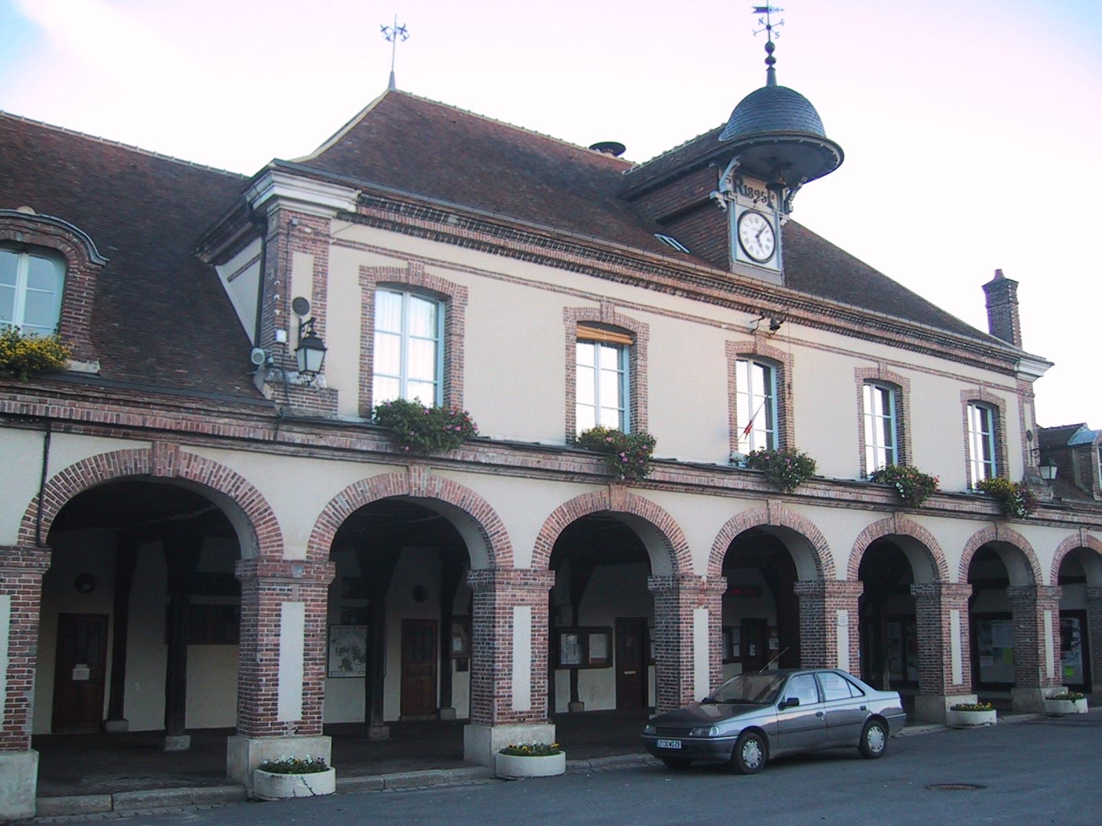 Town hall of La Ferté-Vidame (France).